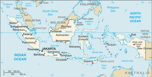 Map of Indonesia by the CIA World Factbook